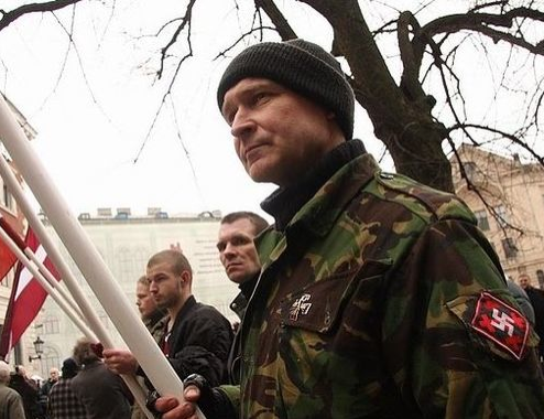 Igors Šiškins at a Latvian Legion rally in 2009.